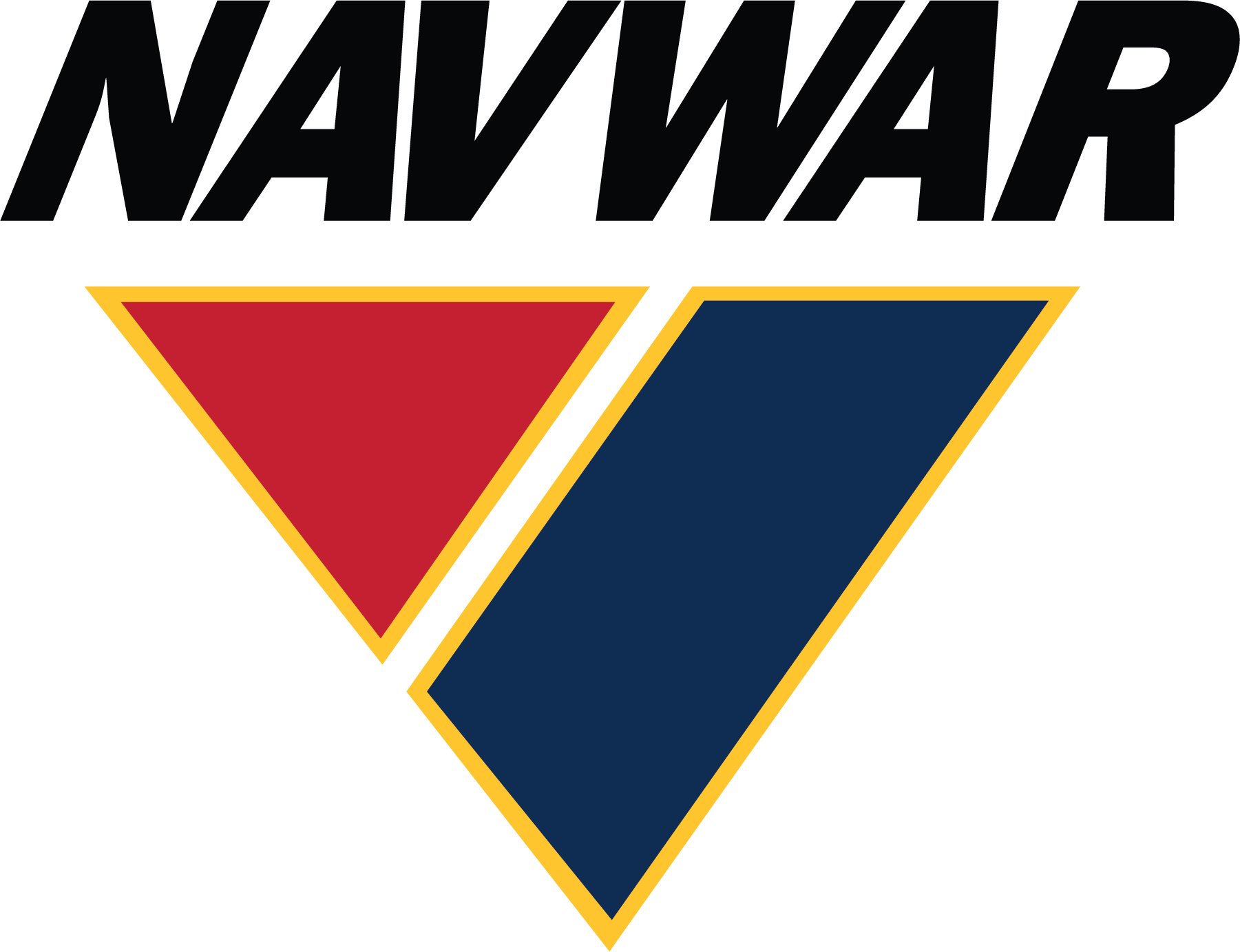 This is the logo for the Naval Information Warfare Systems Command